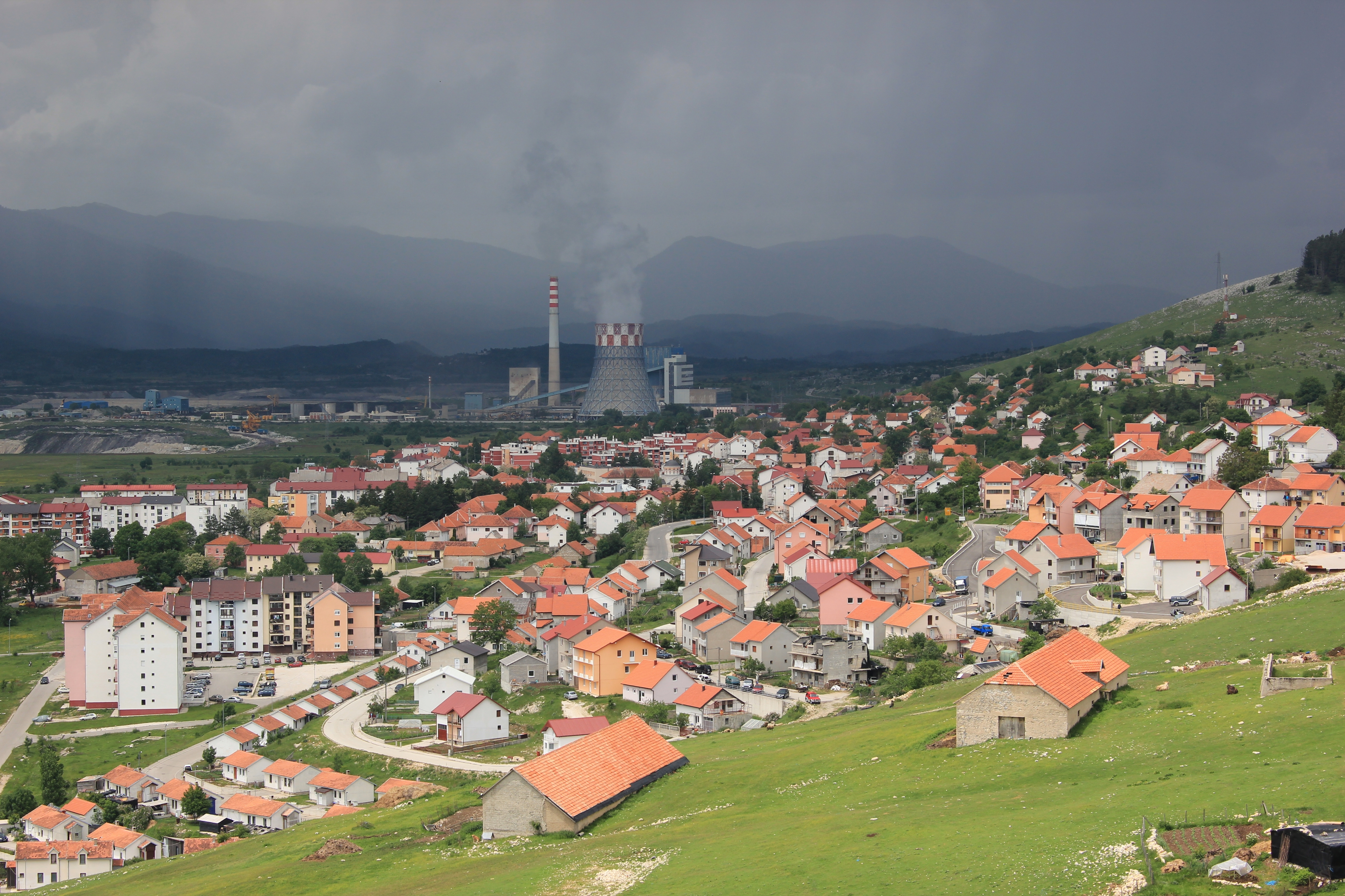 View on Gacko, Bosnia and Herzegovina.